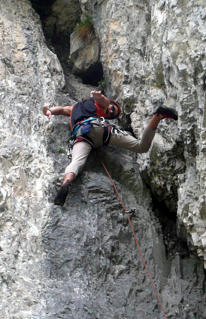 No-Hands Rest